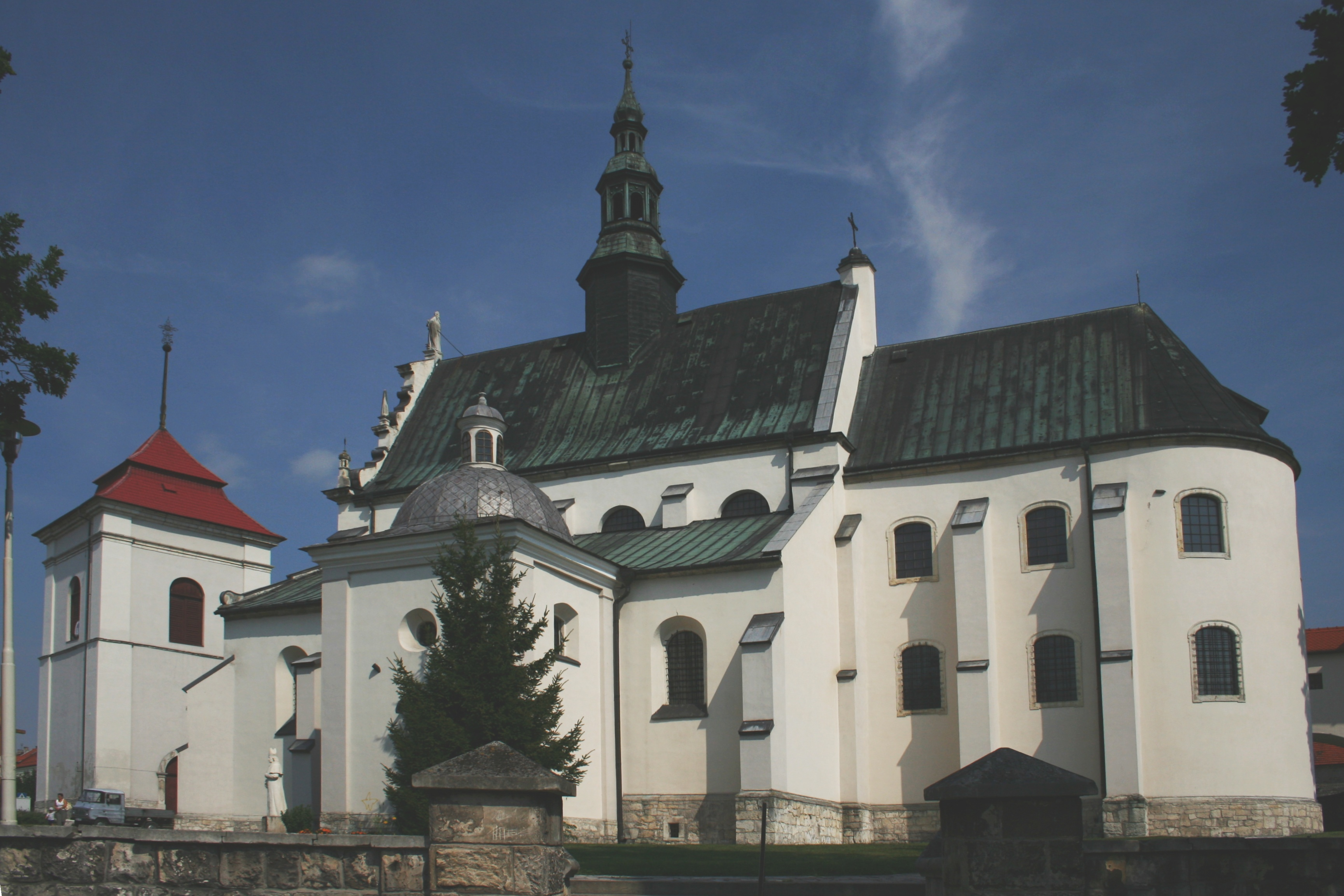 St. John the Evangelist Church in Pińczów, Poland